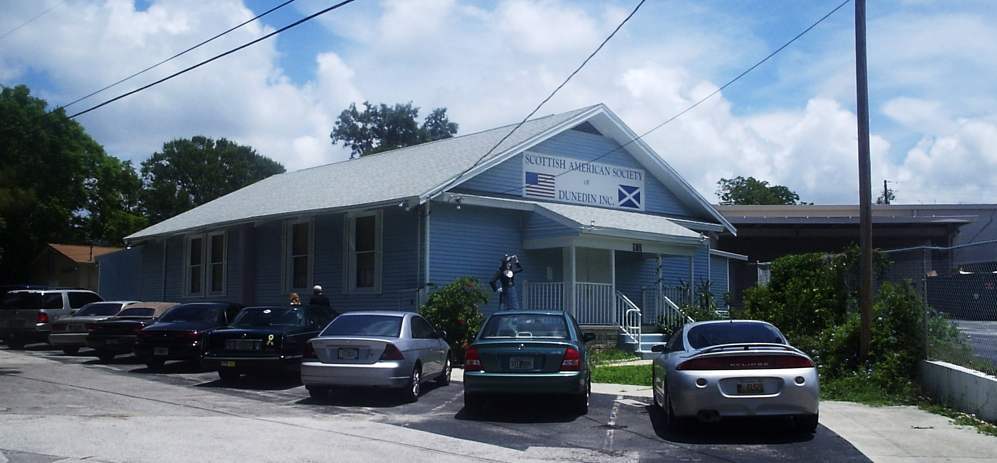 Taken by me.User:Mikereichold